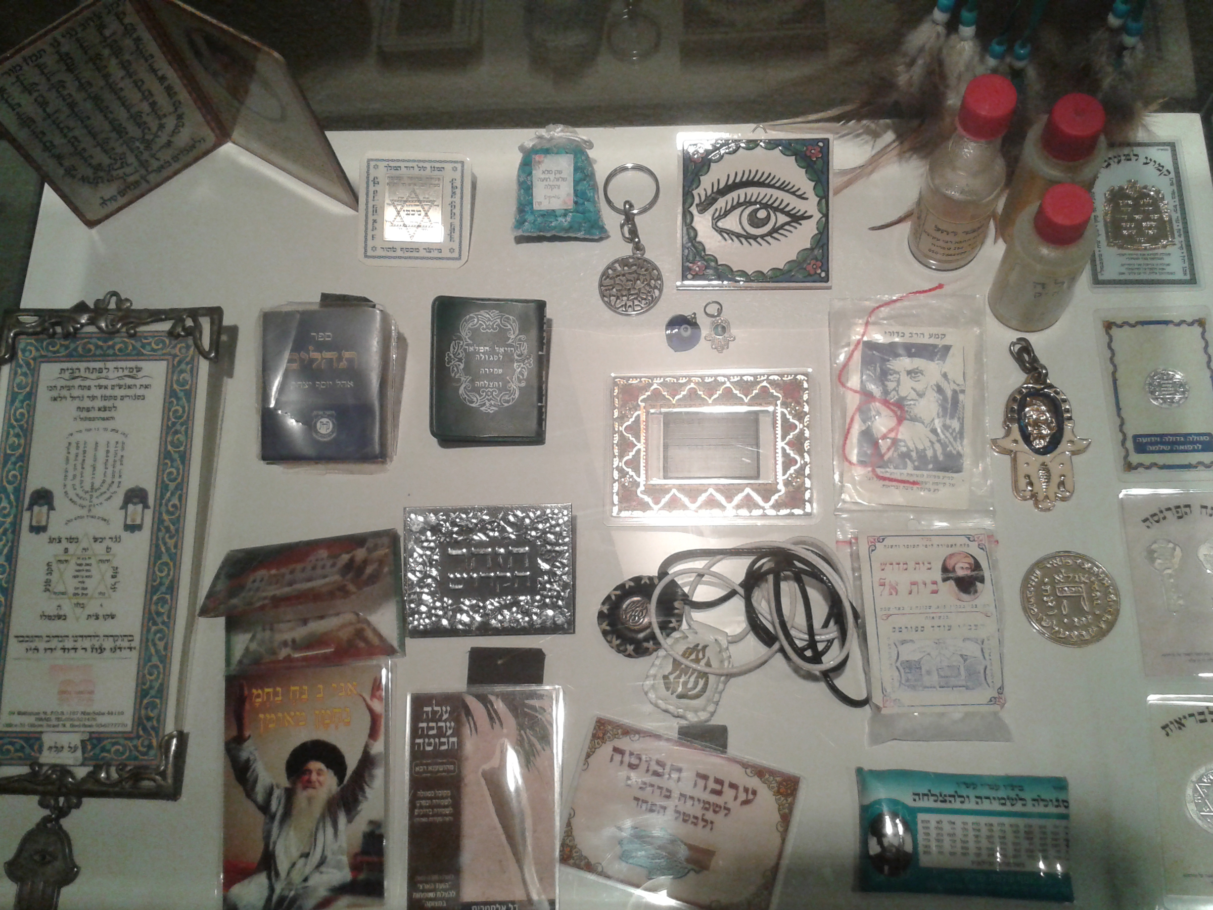 Jewish Amulets , Beit Hatfutsot ,2015